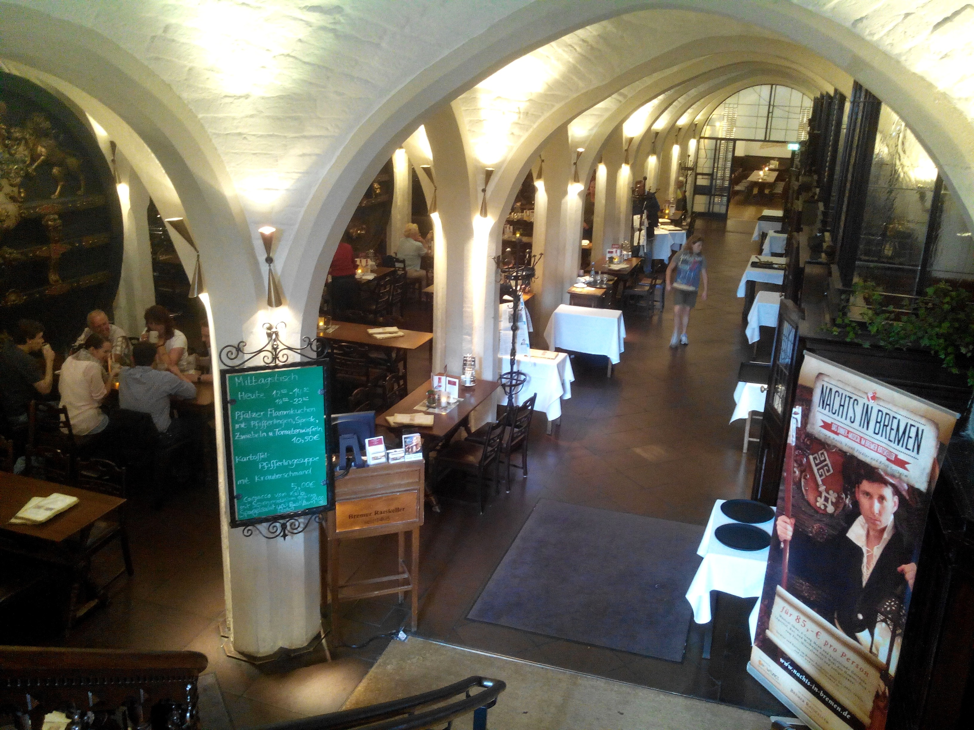 Cellar in the old town hall of BremenDas abgebildete Objekt ist ein geschütztes Kulturdenkmal in der Freien Hansestadt Bremen, mit der Nr. 0066,T002 beim Landesamt für Denkmalpflege registriert.